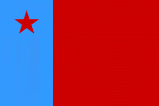 The Flag of AIYF